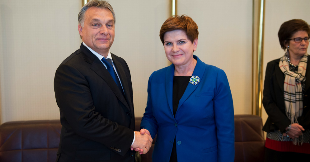 V4 Summit + South Korea in Prague on 3 December 2015